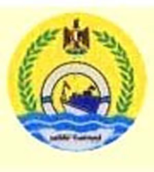 Emblem of the Ismailia Governorate.